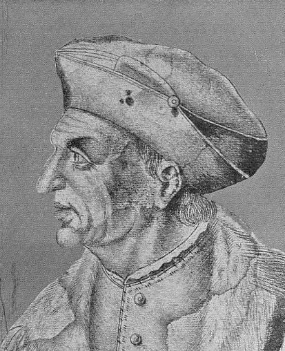 Thomas Linacre